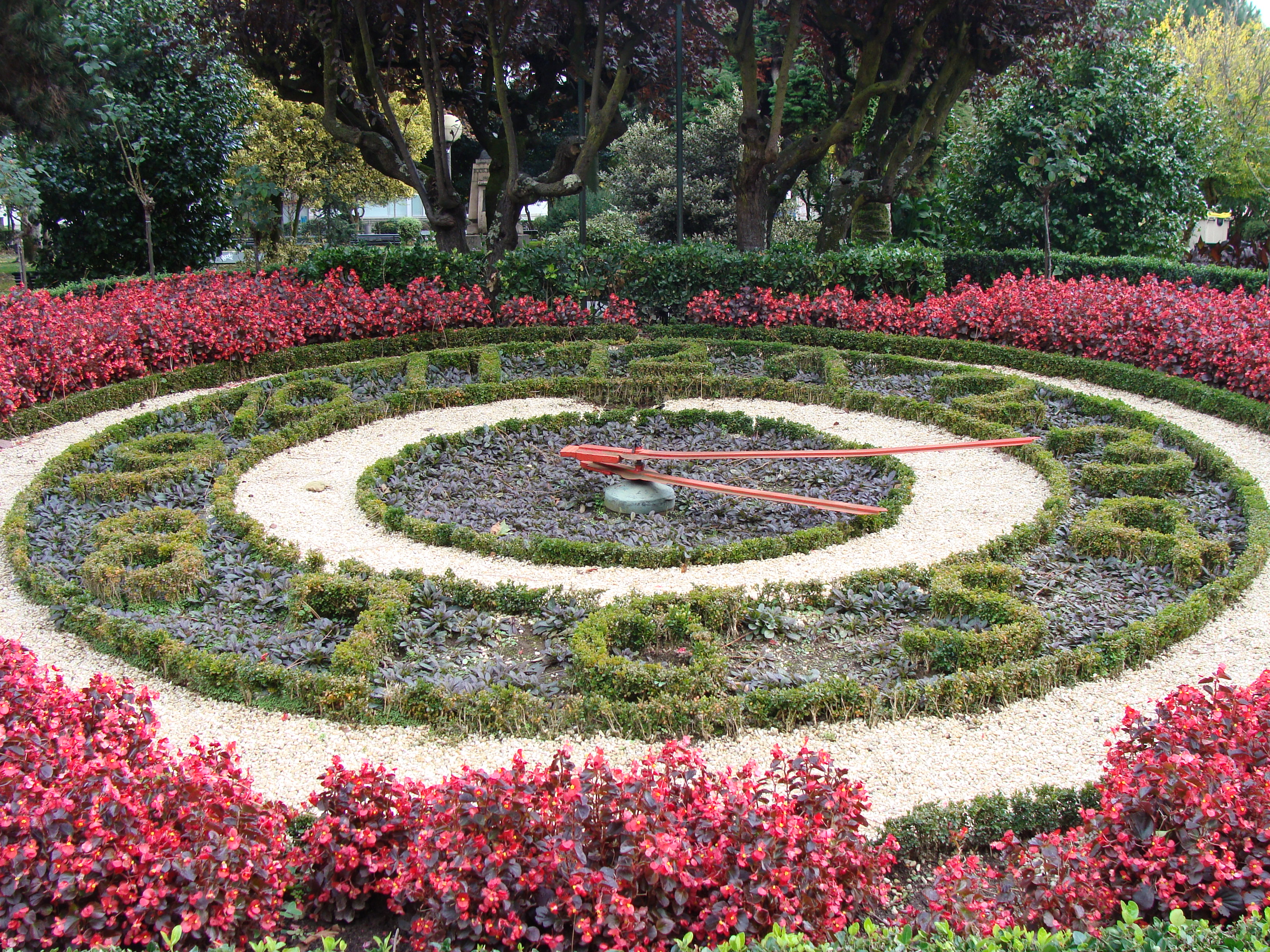 Méndez Núñez's Gardens in Corunna, Galicia, Spain